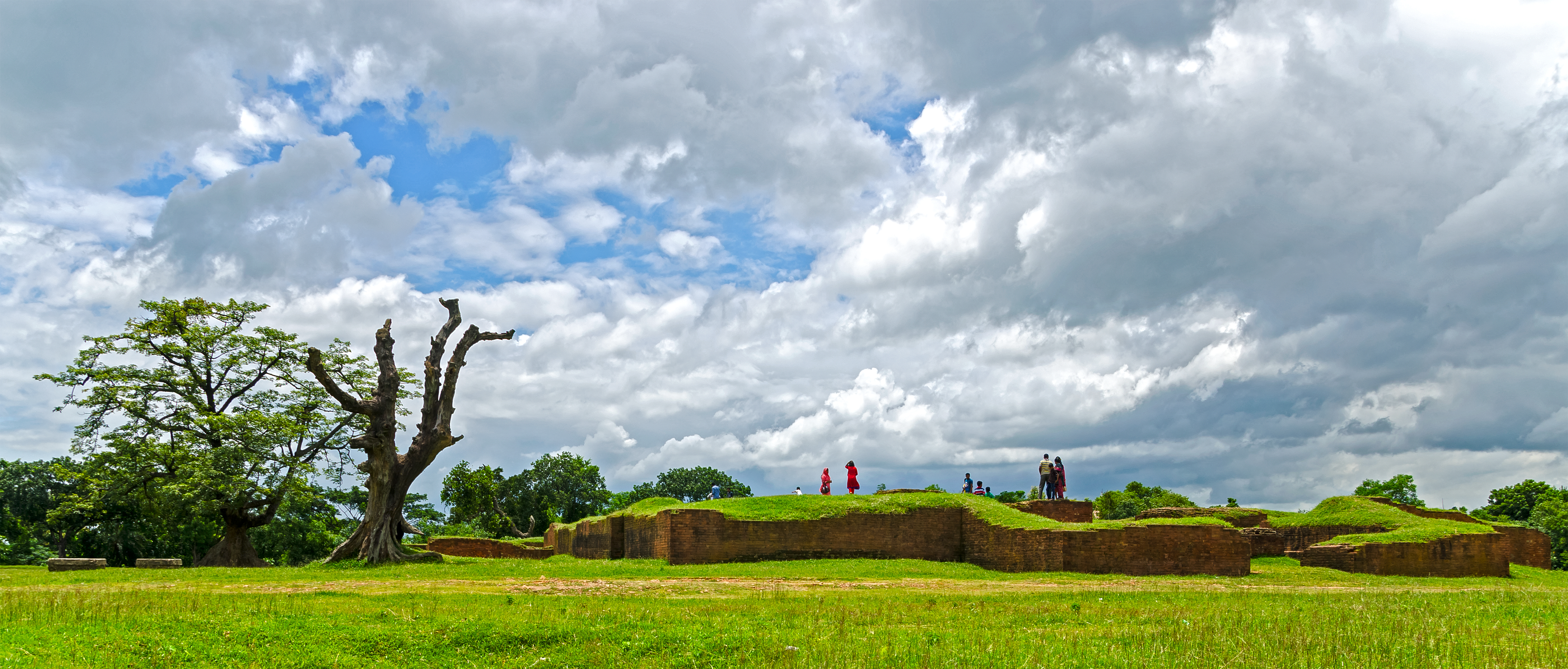 Mainamoti, Bangladesh, is an isolated low, dimpled range of hills, dotted with more than 50 ancient Buddhist settlements dating to between the 8th and 12th century CE.